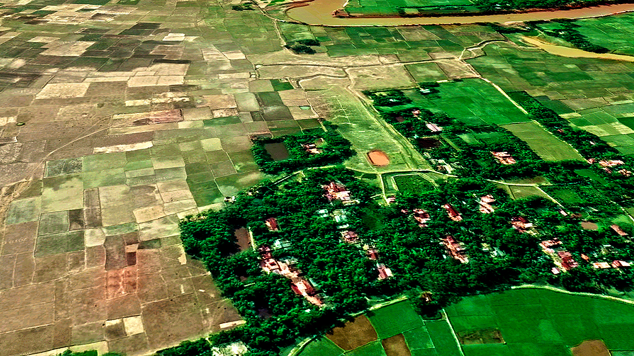 Bird's-eye view of Islampur village 2018